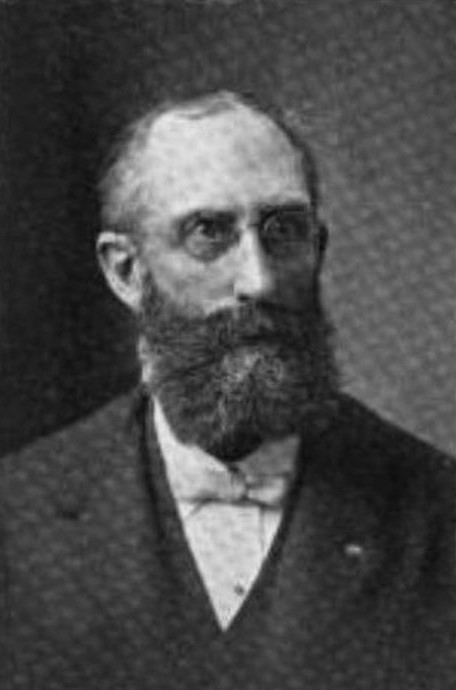 Photograph of architect Edwin A. Quick, of Yonkers, New York, c.1900. Quick was the designer of many important buildings in the Yonkers area, including the City Hall. When this image was taken, Quick was the senior partner in the architectural firm of Edwin A. Quick & Son, with H. Lansing Quick.